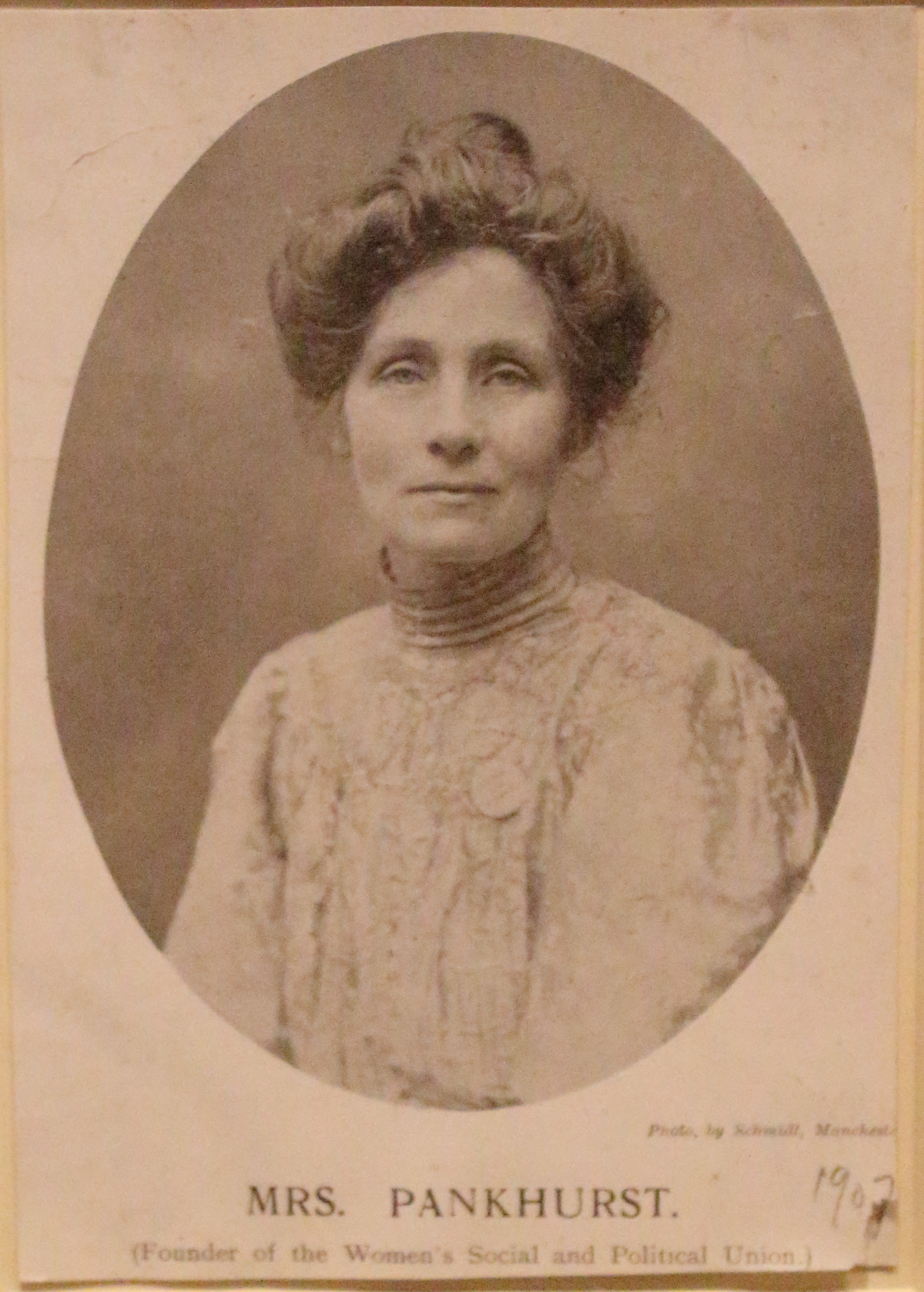 Emmeline Pankhurst Signed Postcard c.1907